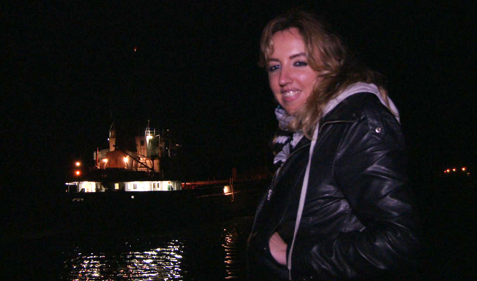 Caoimhe with the Rachel Corrie in the background as she pulls away and leaves